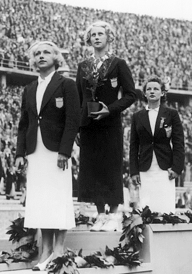 The Three American Divers, Marjorie Gestring, The 13 Year-Old Gold Medalist, Silver Medalist Katherine Rawls, And Bronze Medalist Dorothy Poynton-Hill On The Podium At The Olympic Games Of Berlin On August 13, 1936.